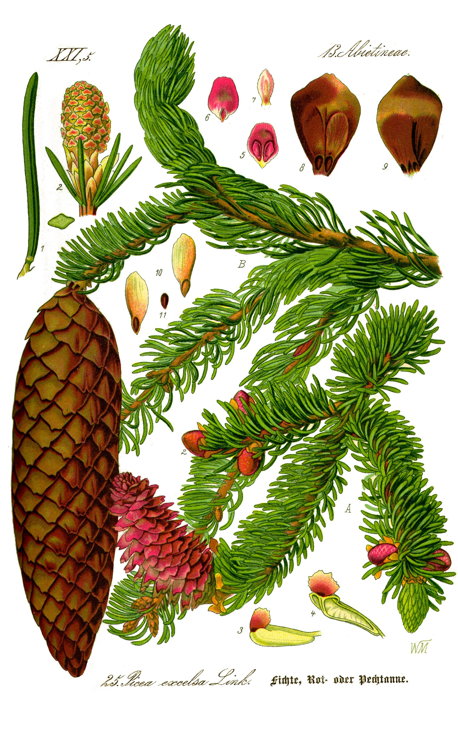 Name Picea abies Family Pinaceae